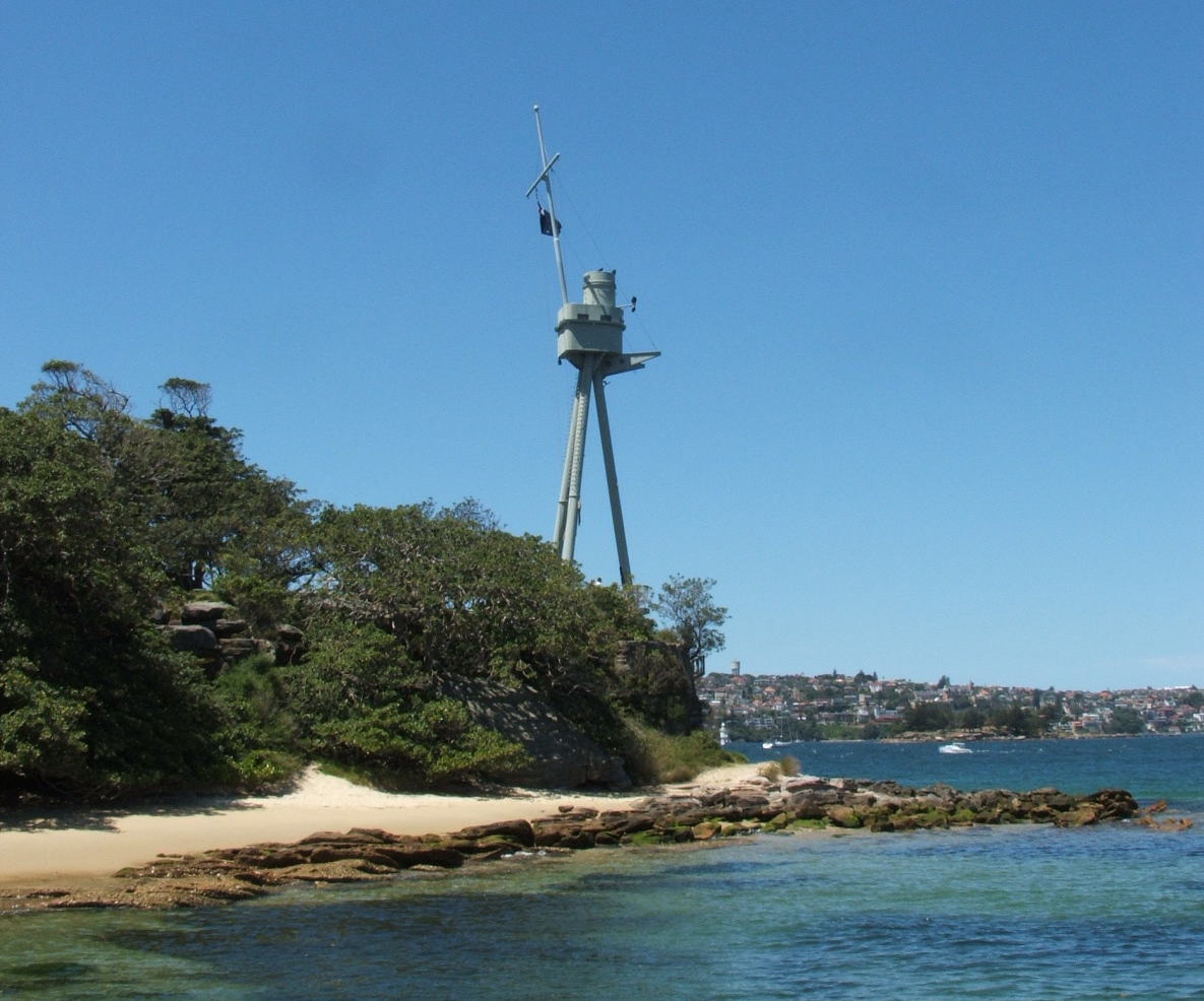 Foremast of HMAS Sydney I, located at Bradleys Head, Sydney, Australia.